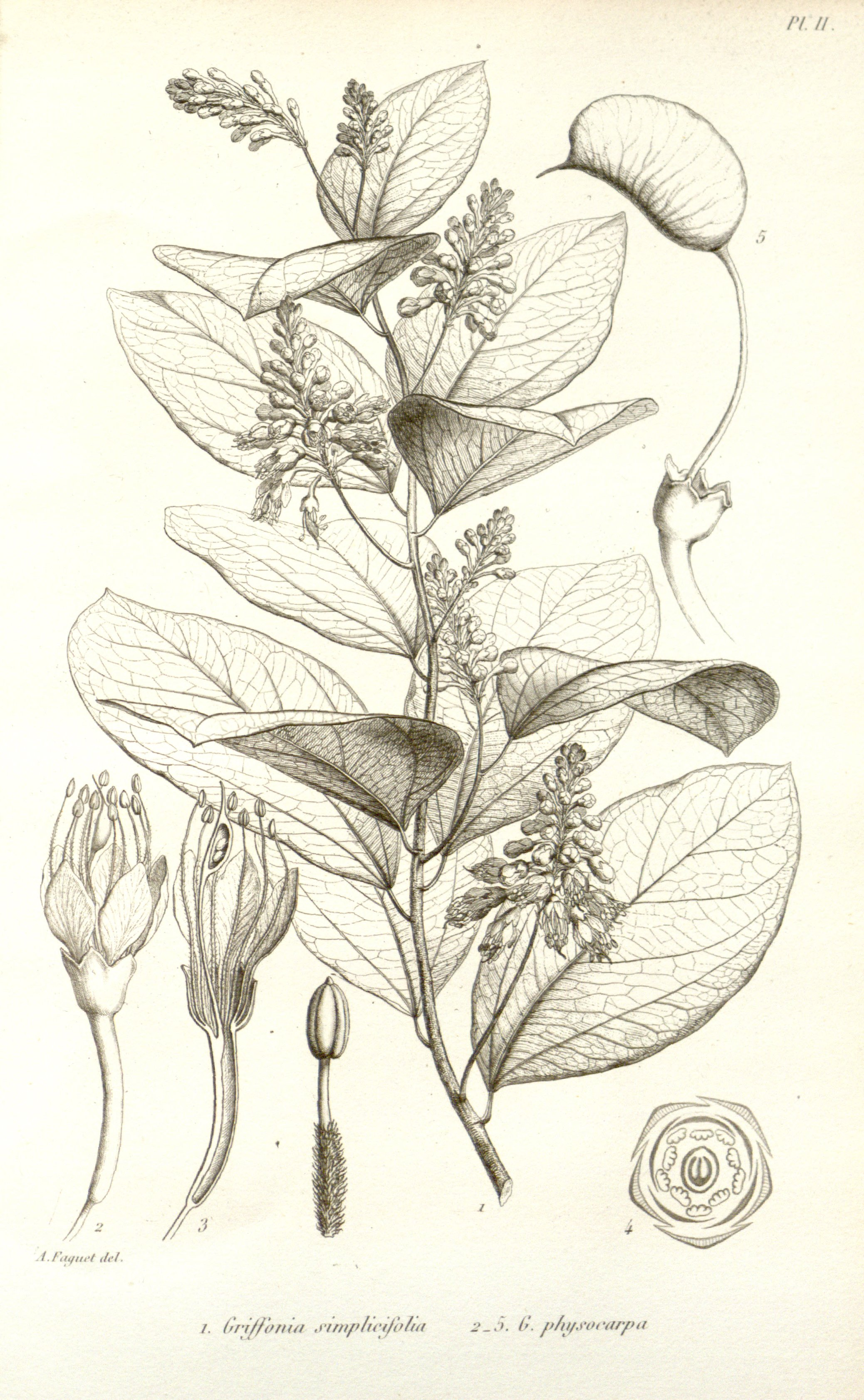 drawing of Griffonia simplicifolia (1) and Griffonia physocarpa (2-5)